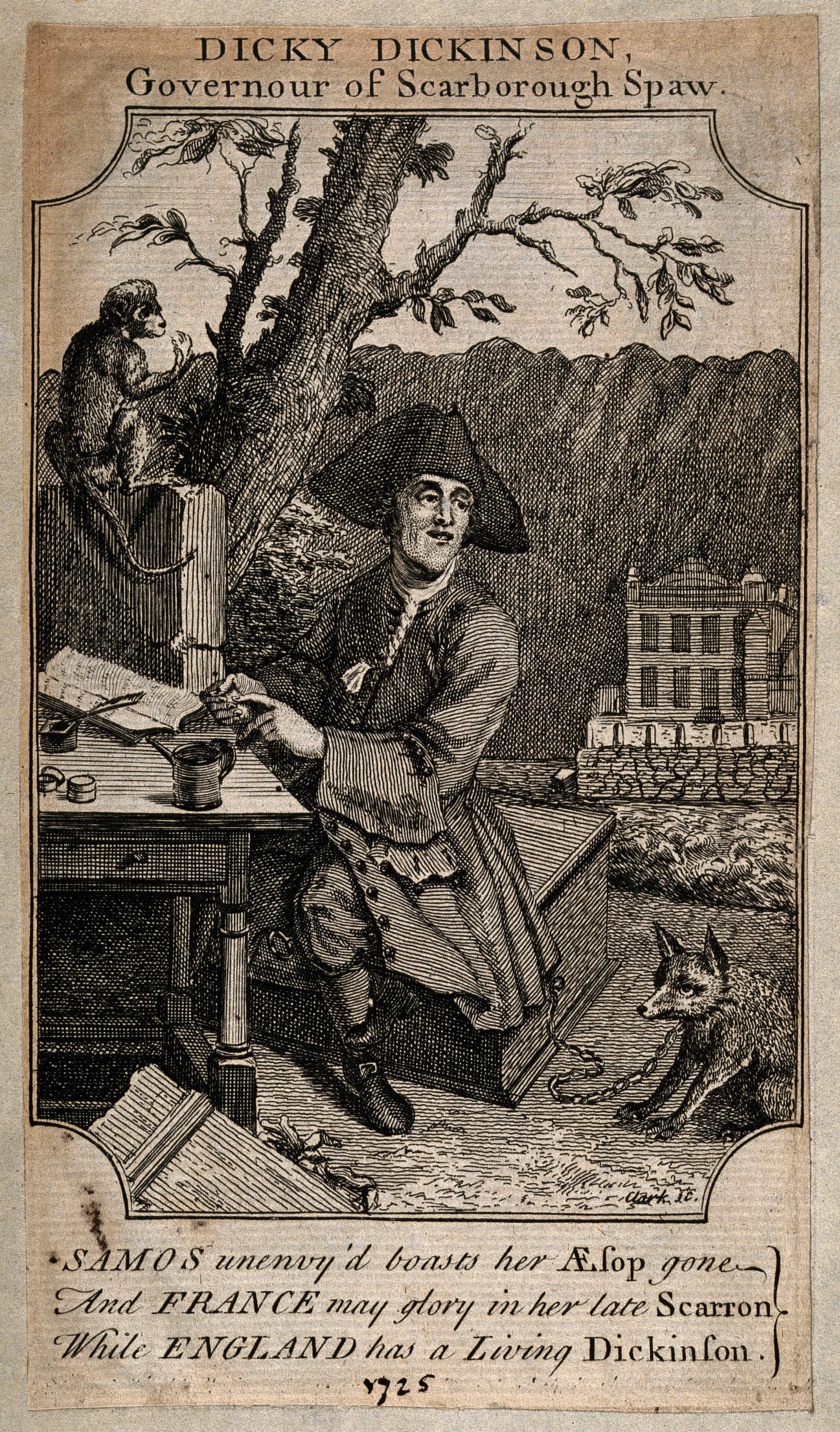 Richard Dickinson, an eccentric who imagines himself a wealthy king, from Scarborough. Engraving by J. Clark., 1725. Iconographic Collections Keywords: John Clark; Richard Dickinson